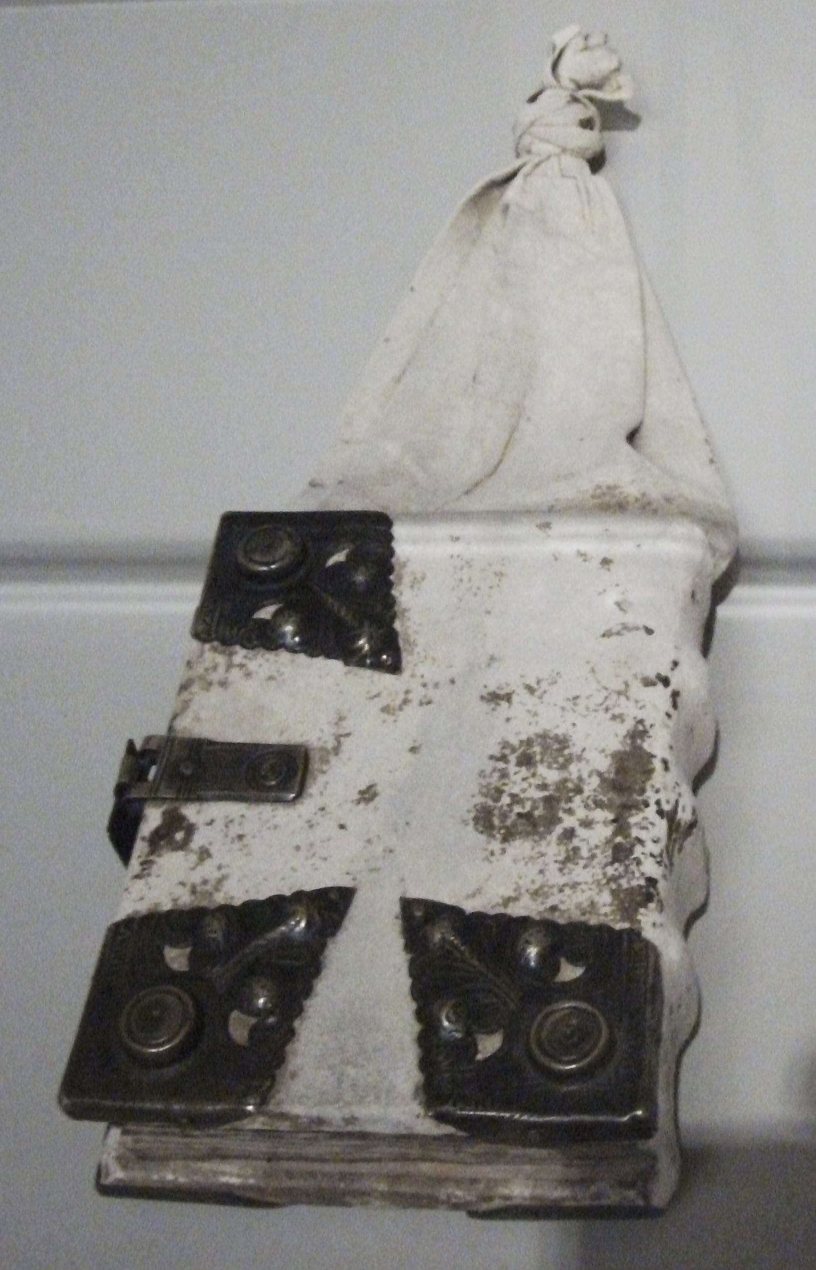 girdle book, Kunstpalast, Dusseldorf